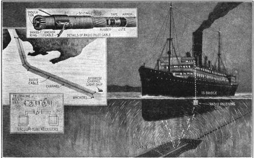 This period diagram describes the Holland Channel cable.